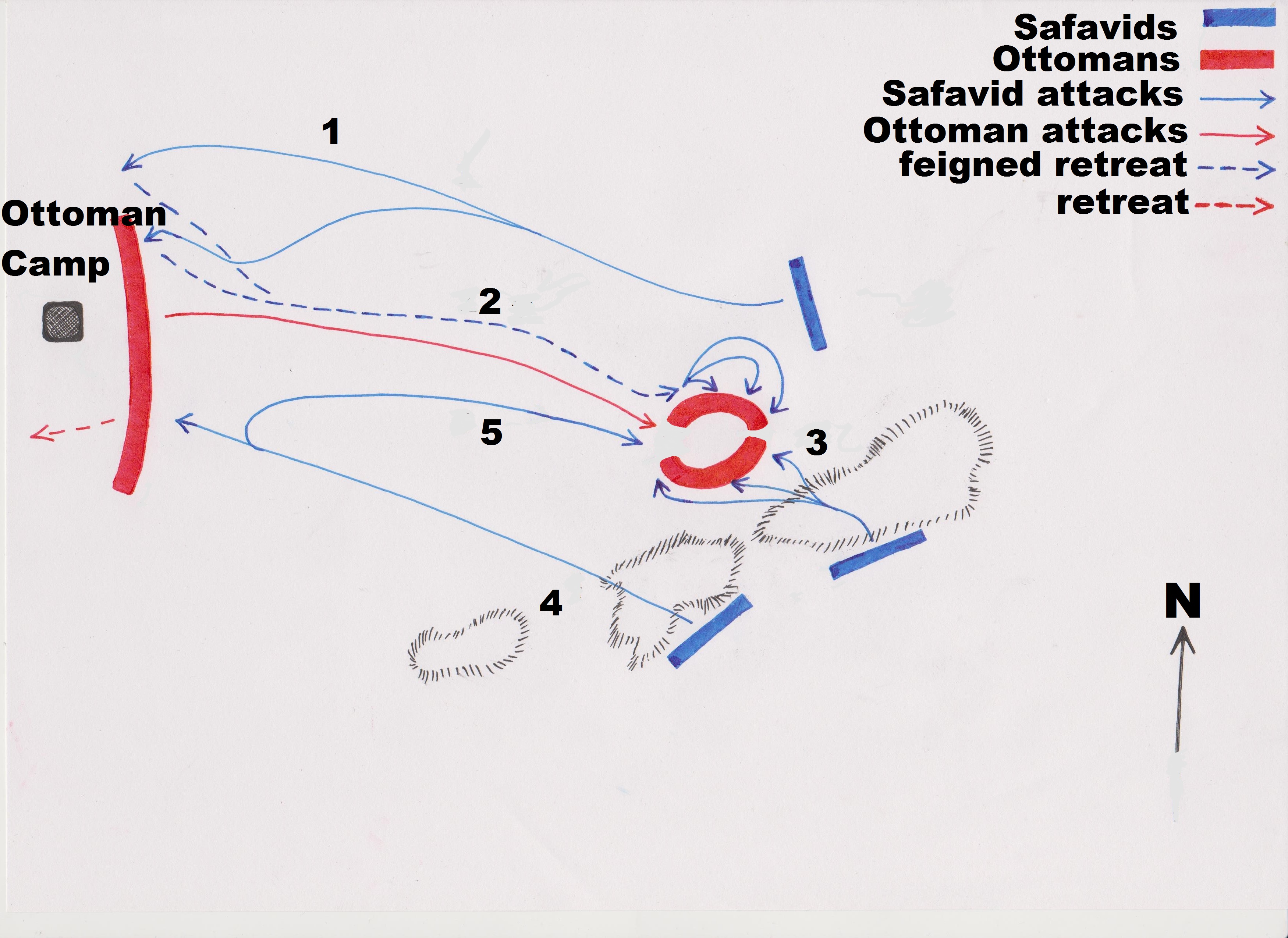 Battle map